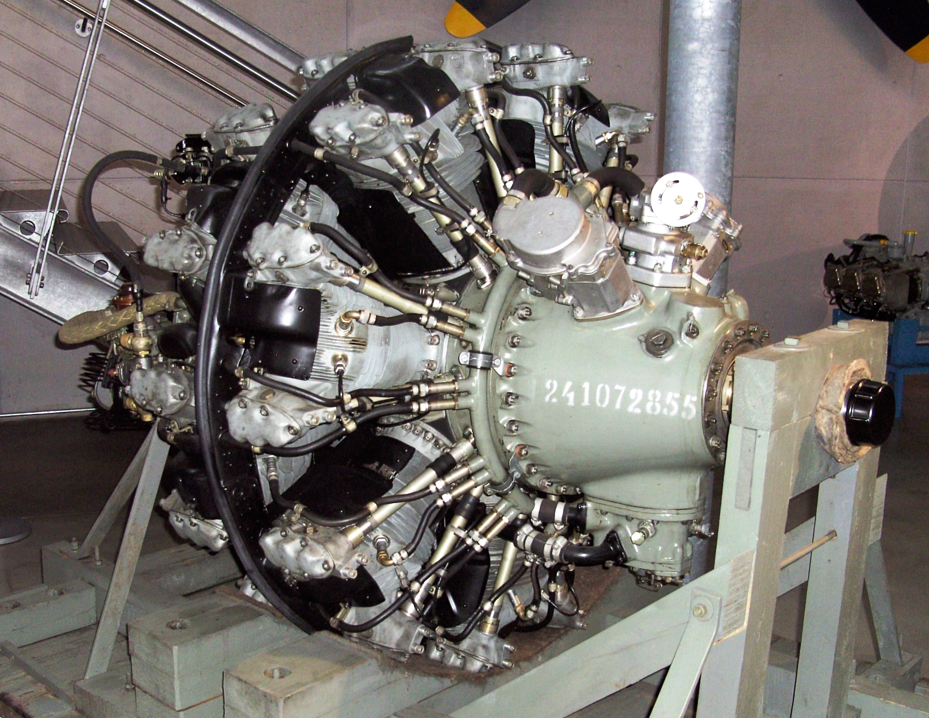 Aircraft engine Shvetsov ASh-82T at Flugwerft Schleißheim, Germany.